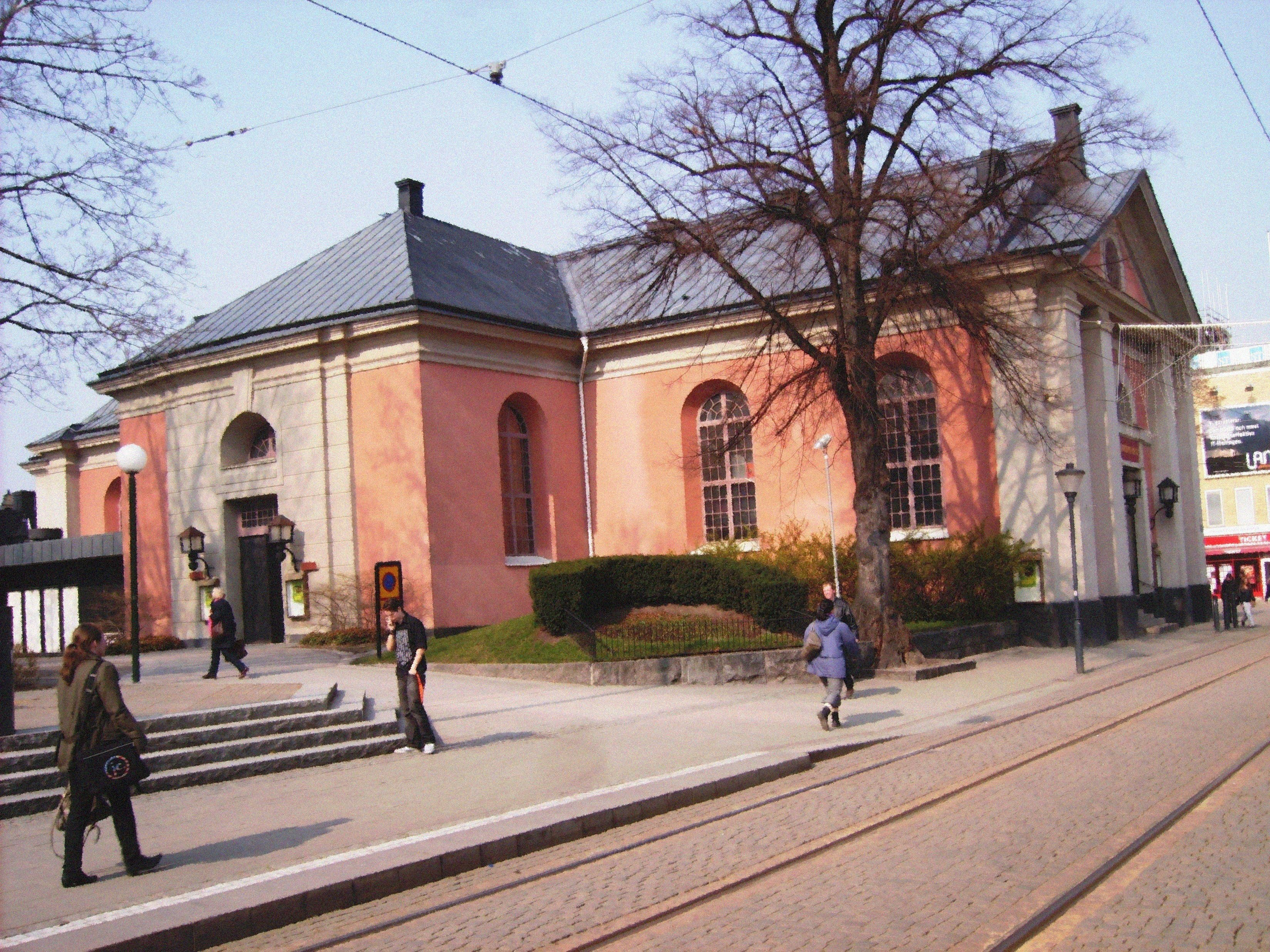 The old church (ca 1100-1906), in the Parish of Saint John in Norrköping, Sweden.